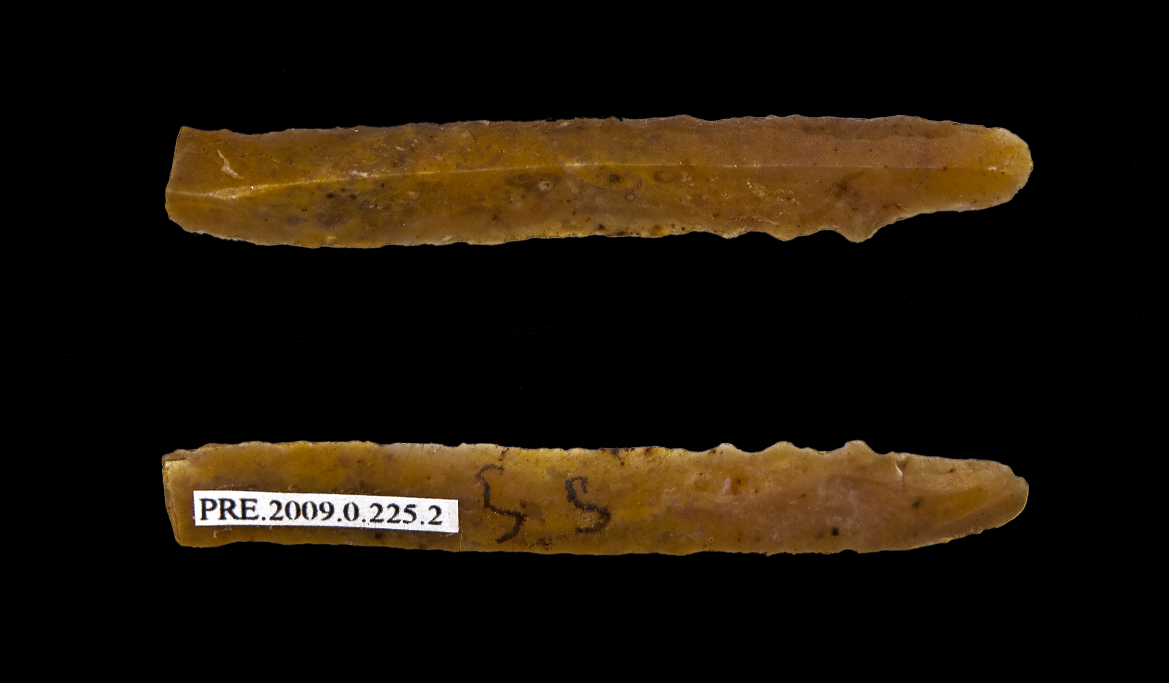 Truncated bladelet - Different views of the same specimen.